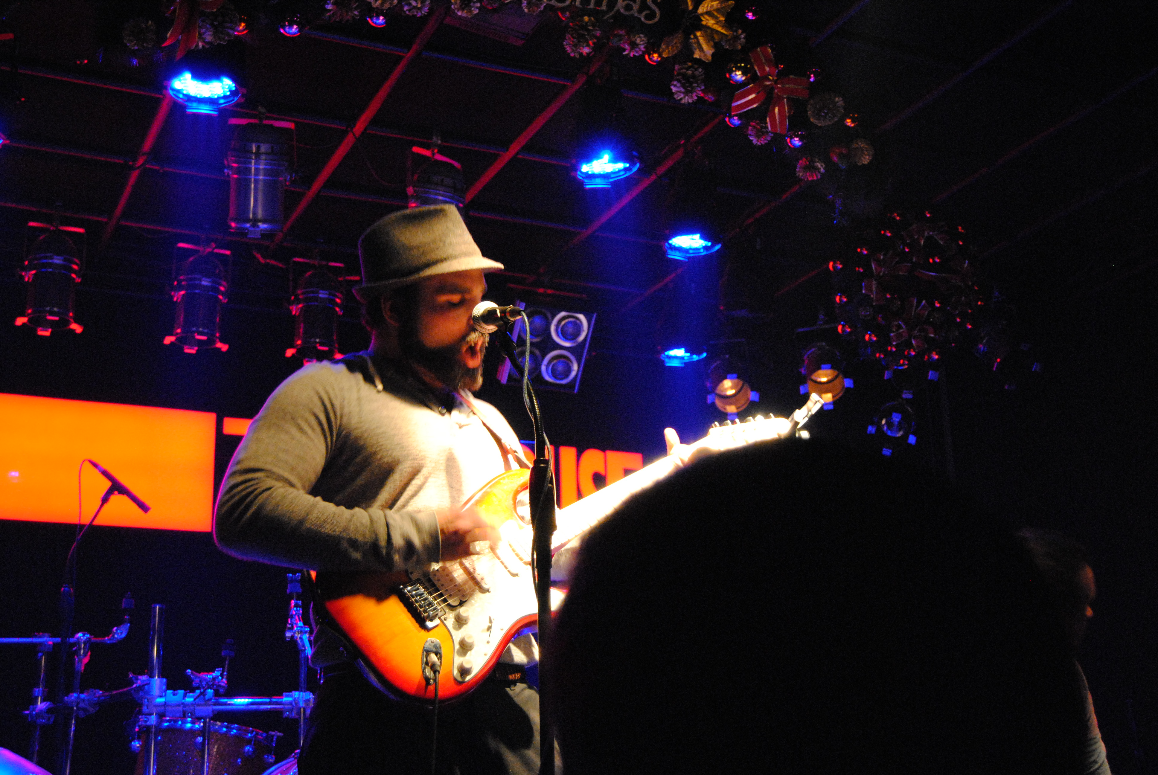 photo taken in Zhengzhou, China